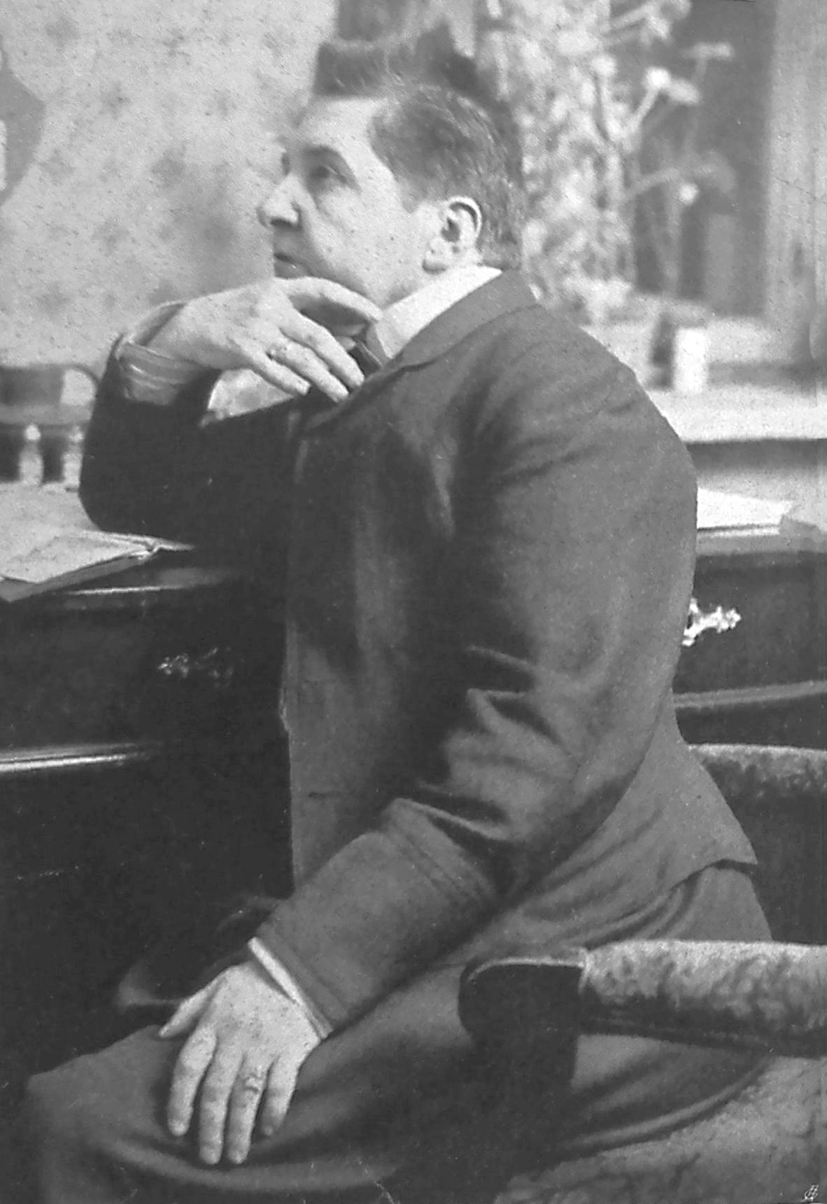 Maria Rodziewiczówna (1863-1944) - a Polish writer.